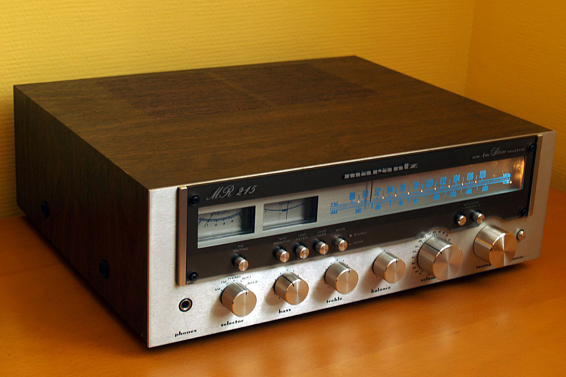 Marantz model MR 215 vintage receiver